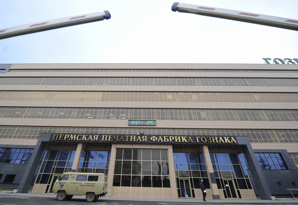 “Printing banknotes at Goznak factory in Perm”. The Goznak factory's main facility in perm.